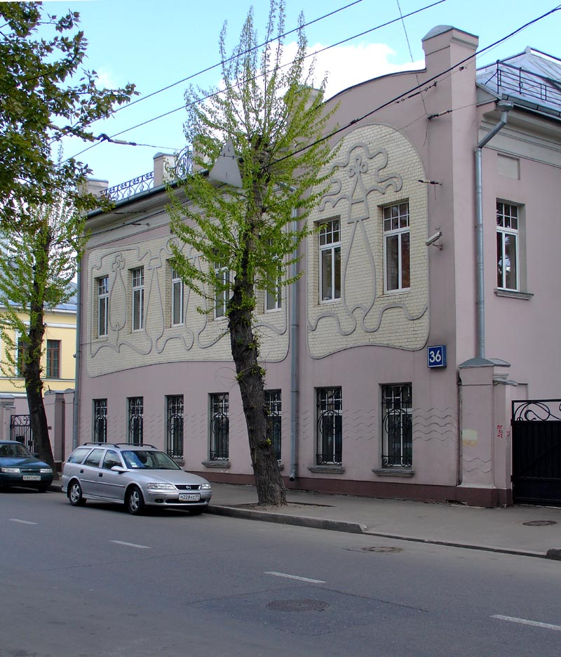 36, Bolshaya Kommunisticheskaya Street, Moscow